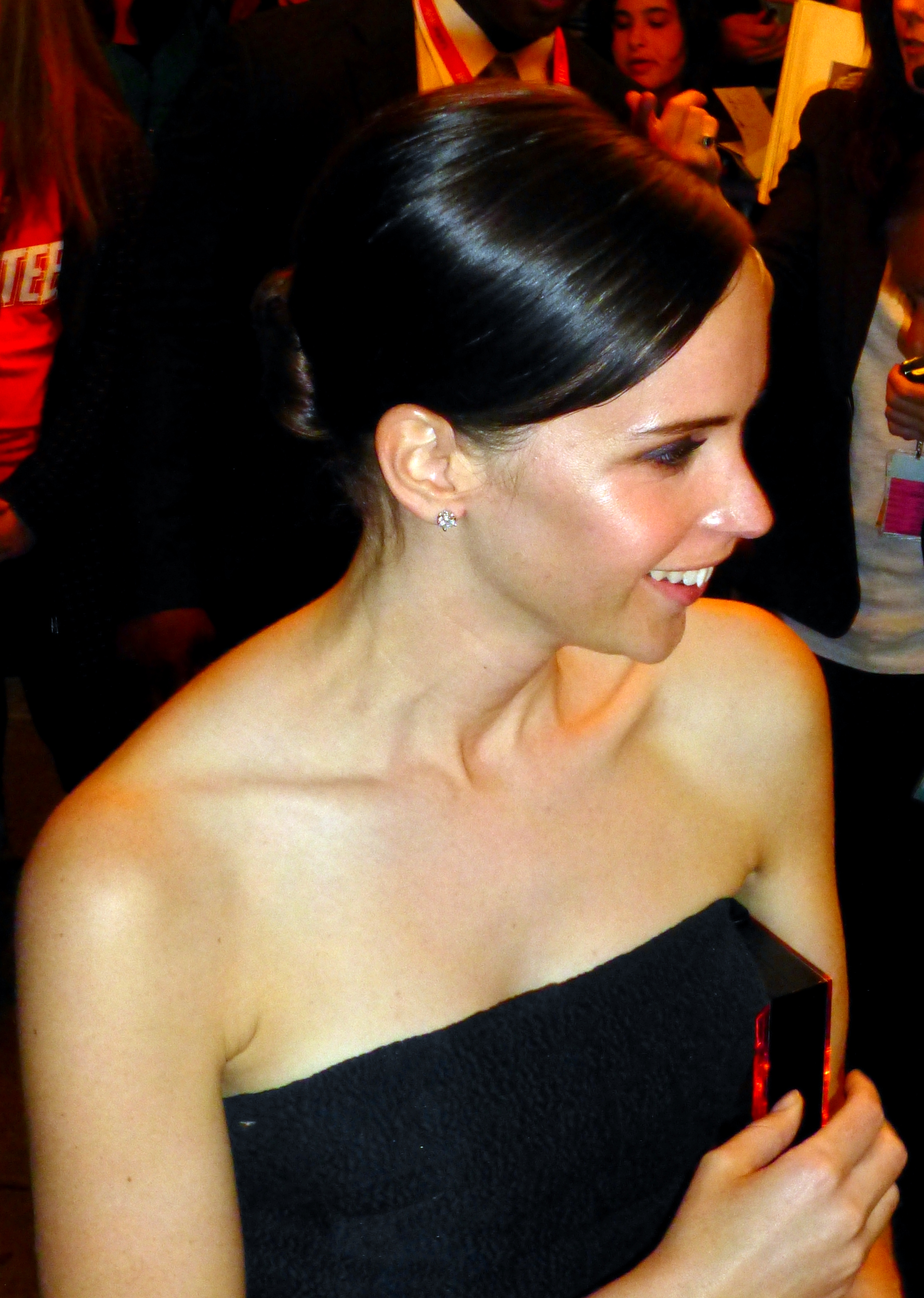 Felicity Jones at the premiere of Invisible Woman, Toronto Film Festival 2013